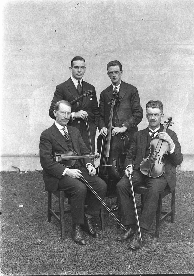 New South Wales State Conservatorium Quartet (string quartet) L to R: Gerald Walenn (violin, seated); Lionel Lawson (violin, standing); Gladstone Bell (cello, standing); Alfred Hill (viola, seated)